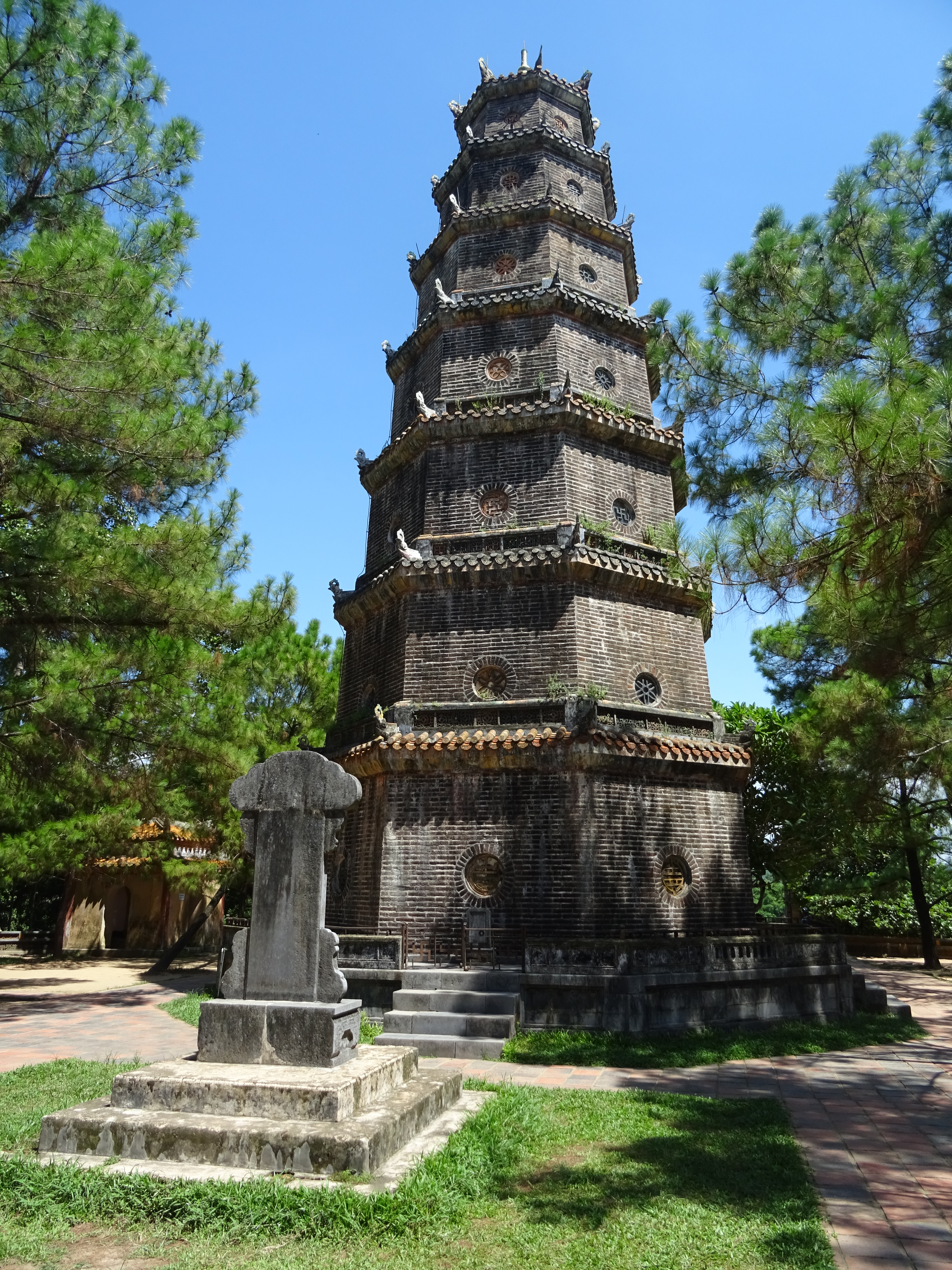 The Pagoda of the Celestial Lady in Huế.